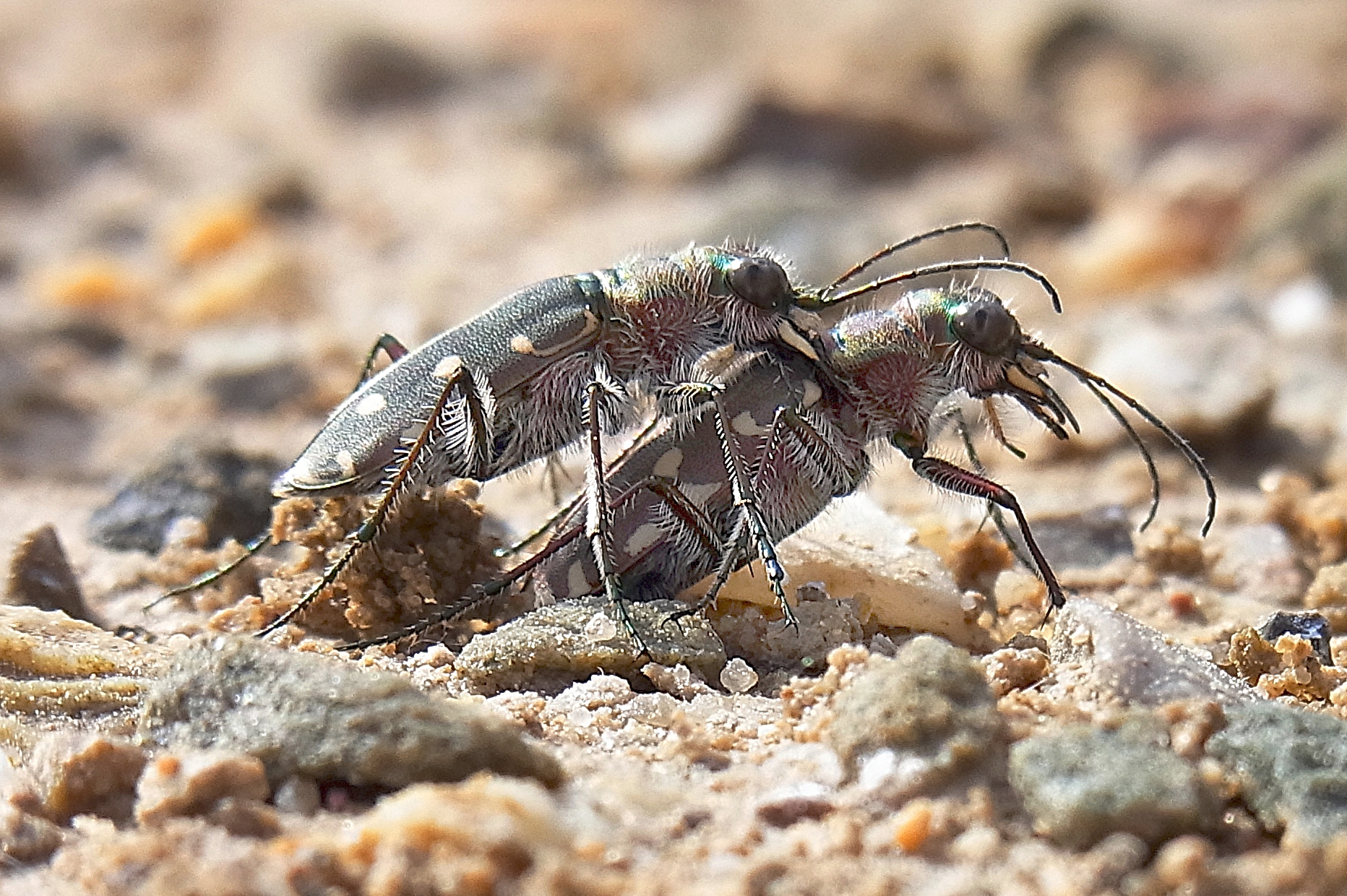 Calomera littoralis nemoralis (Olivier, 1790) from Southern France near Perpignon on Salt-field at 2011-04-13